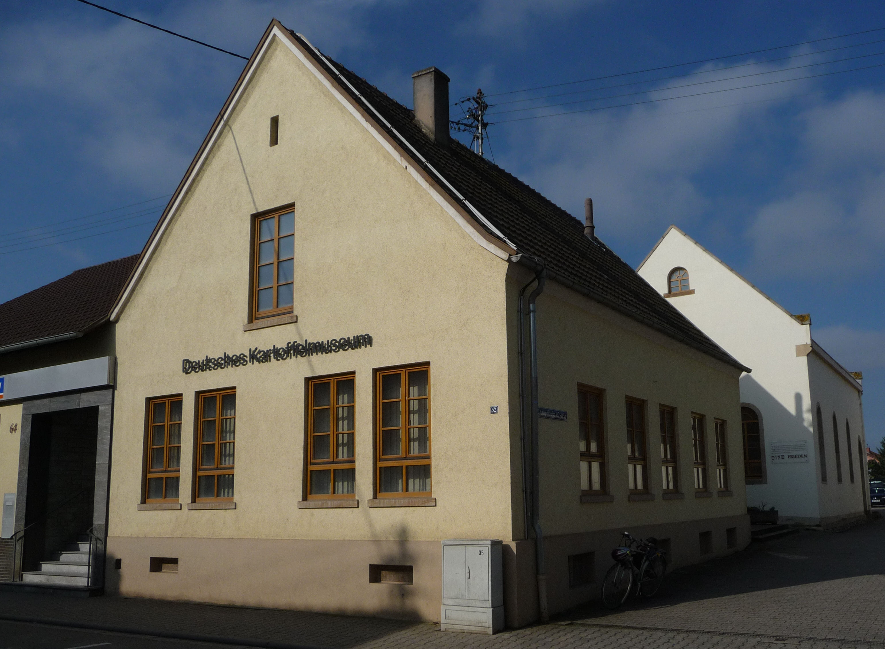 German potato museum in Fußgönheim, Rhein-Pfalz-Kreis